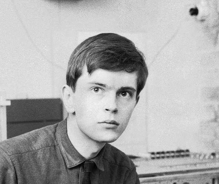 Photograph of the Finnish composer of electronic music Erkki Kurenniemi (1941–2017).